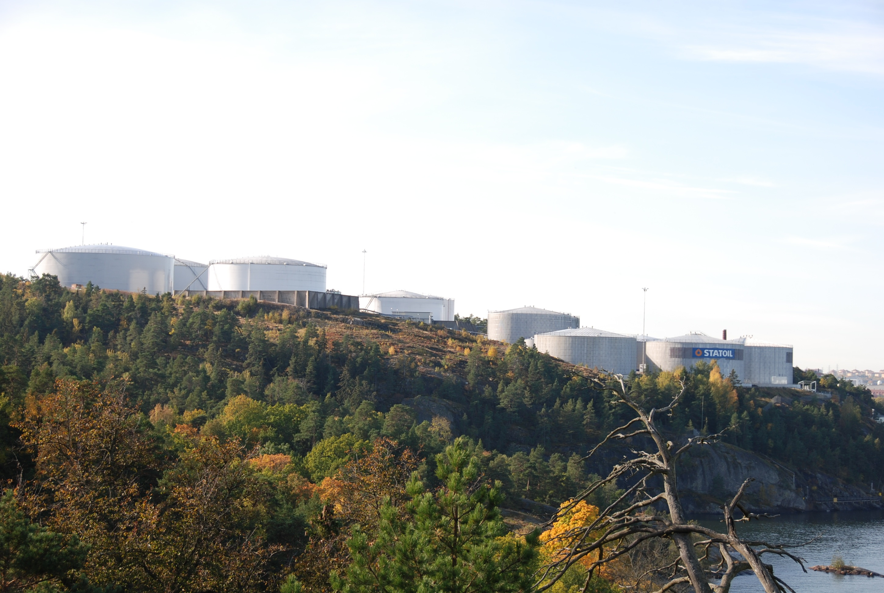 "Bergs oljehamn" seen from Nacka